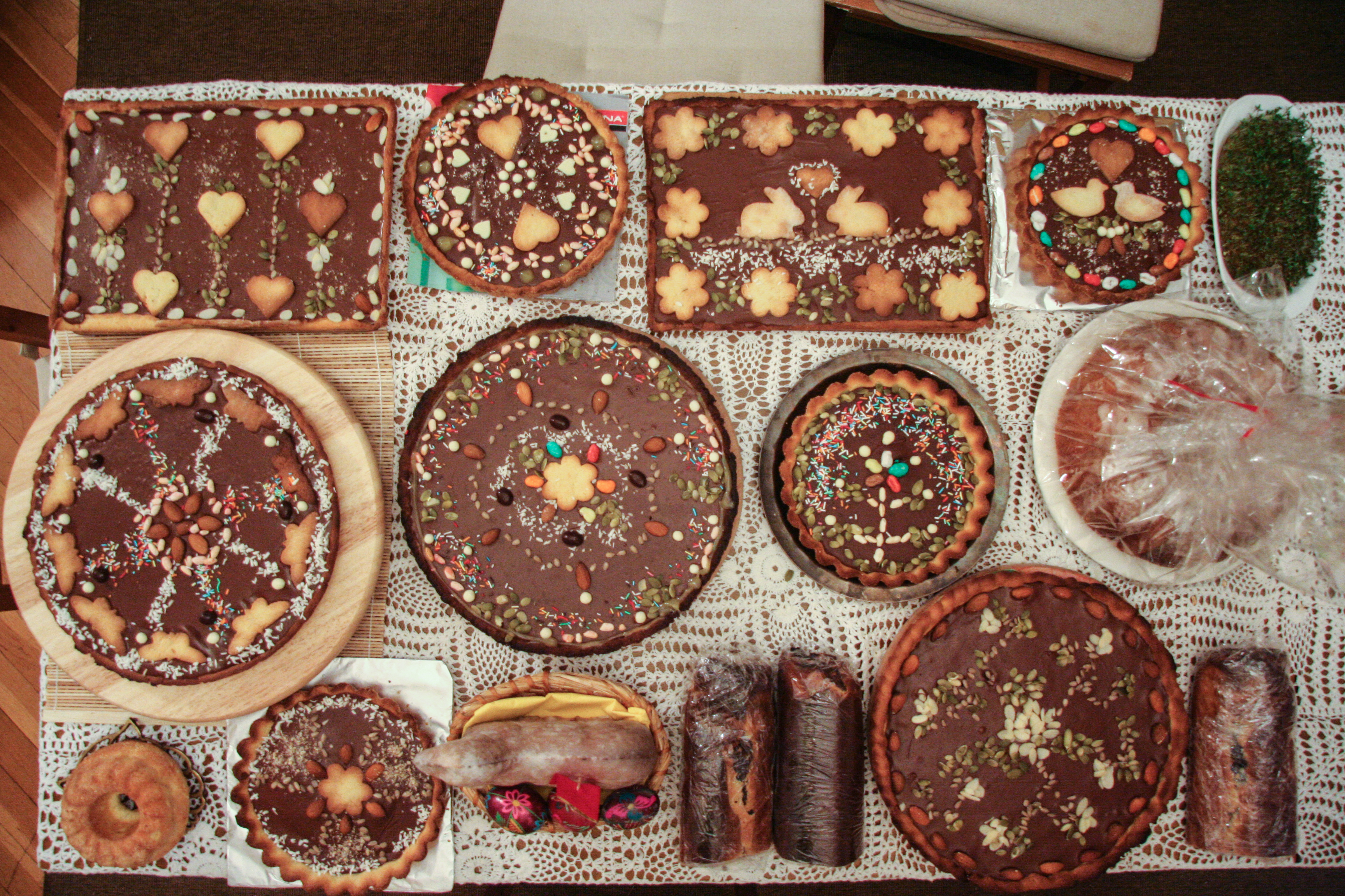 April 10th The total of our homemade Easter goodies. Mazurkis, babas, poppyseed cake and a nutcake lamb with lemon icing. Mmmmm...none of which can be touched until after the Resurrection after midnight tomorrow. Not a very good photo because I had to stand on tiptoe on a chair and take a blind shot from over the table. :P I wish I was taller sometimes.